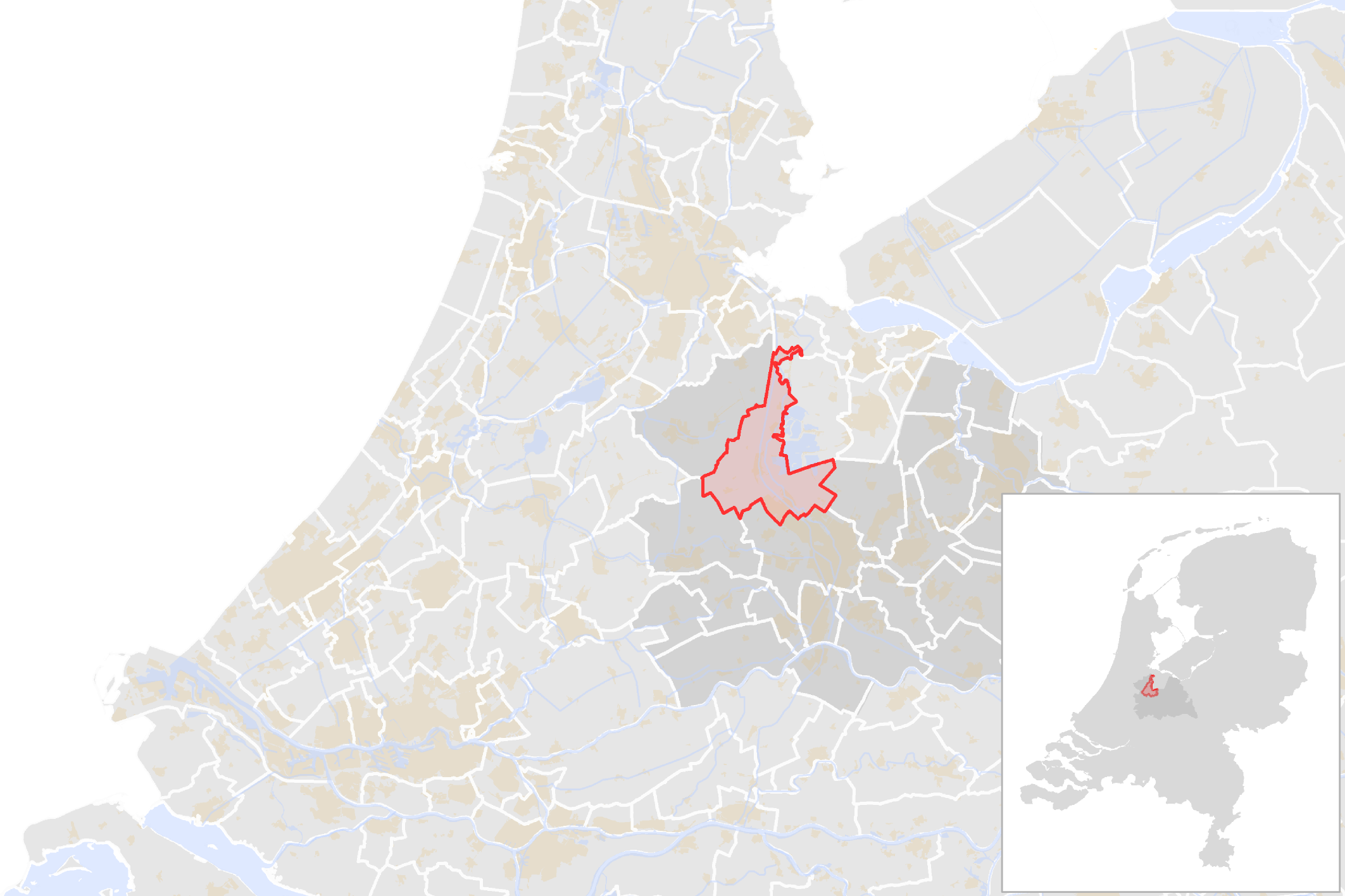 Locator map showing municipality boundary of one of the 390 Dutch municipalities (as of 2016)